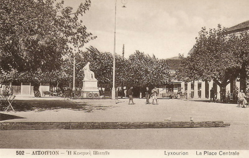 Central square of Lixouri. Postcard of the begin of the 20th century